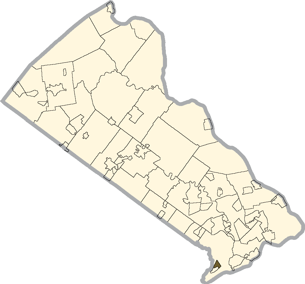 Eddington shaded on the map of Bucks county, PA.